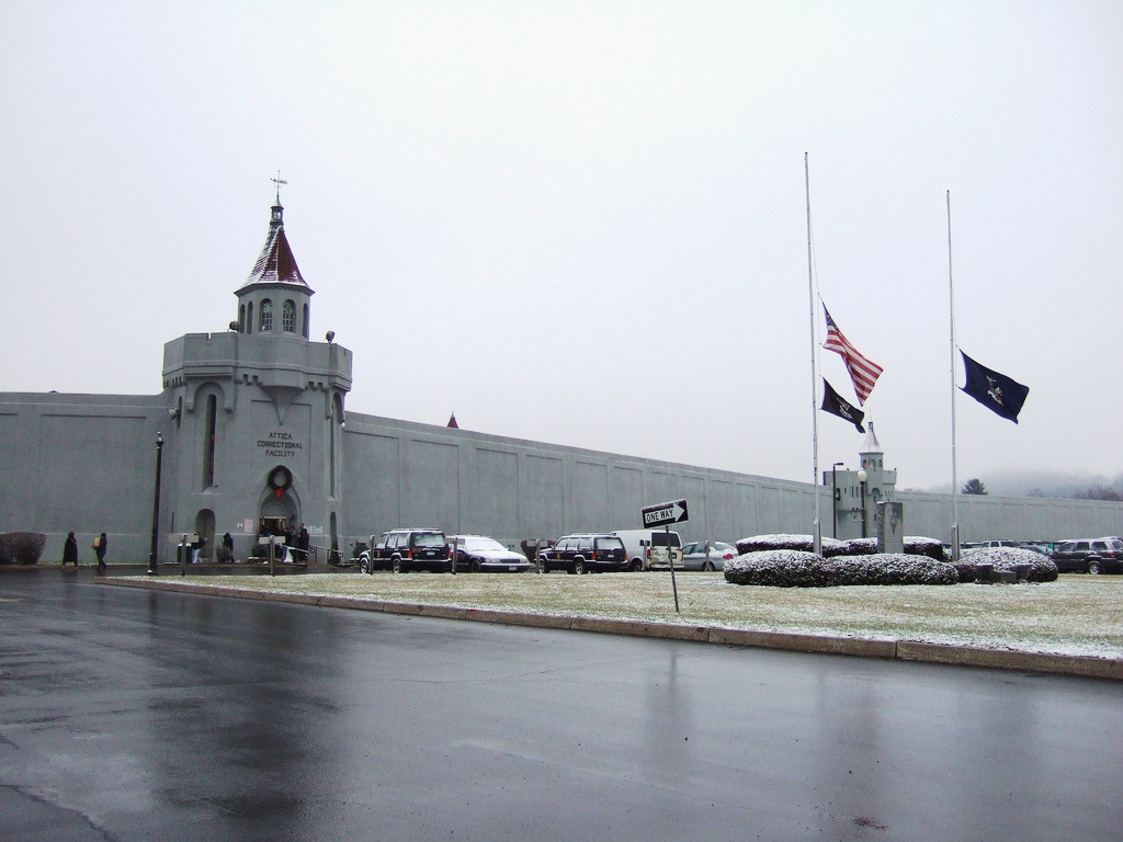 Entrance of the Attica Correctional Facility